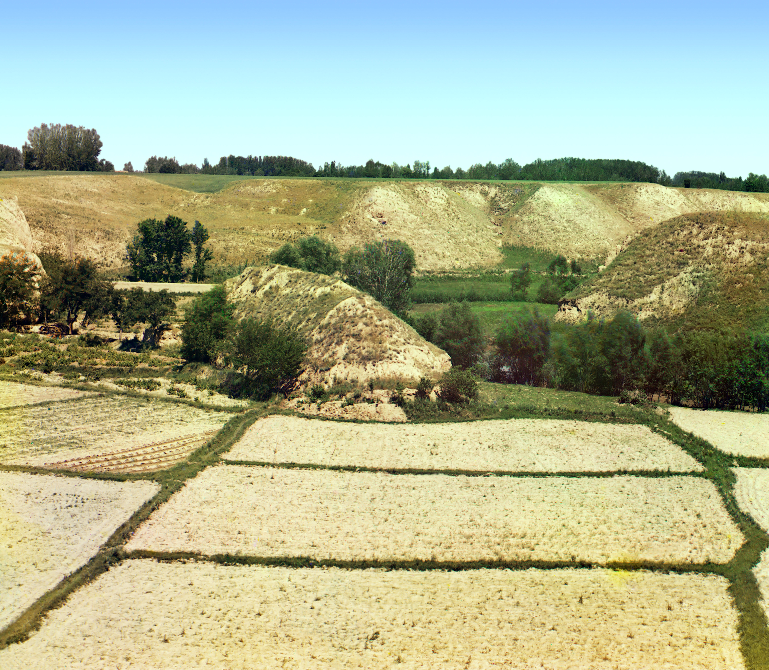 Original Description: Sart fields. Samarkand.